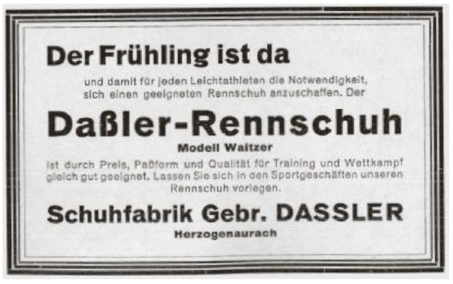 1927 advertisement for pre-adidas shoe in Germany (Zeitschrift Start und Ziel)